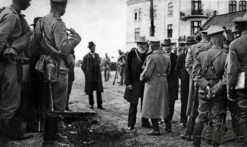 Lviv vice-president Tadeusz Rutowski meeting Russian army general Vasily Rode